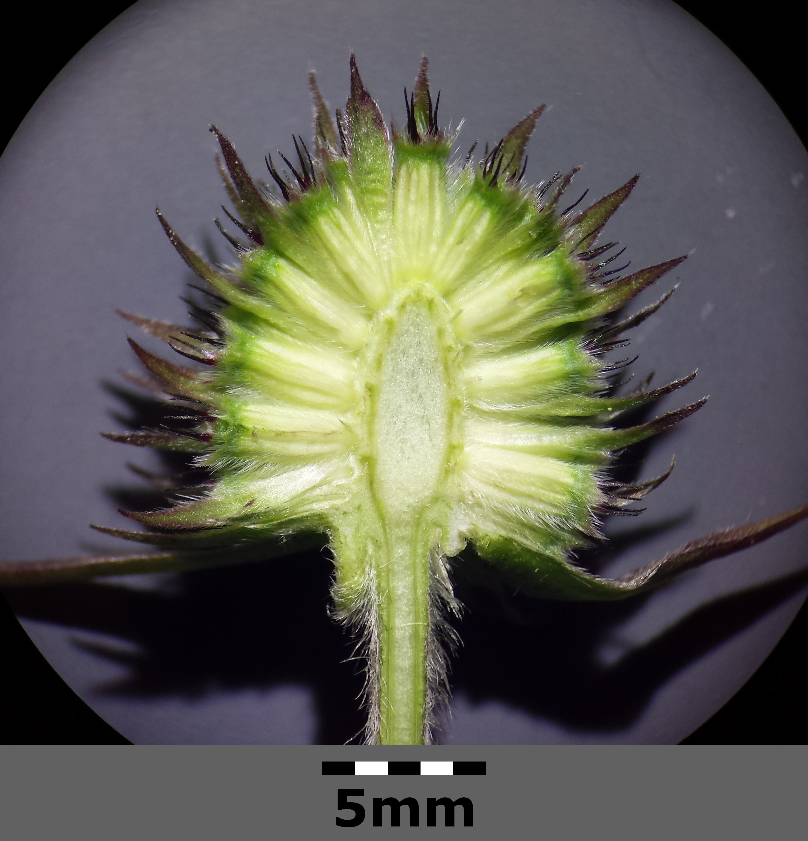 Head cut opened Taxonym: Succisa pratensis (ss Fischer et al. EfÖLS 2008 ISBN 978-3-85474-187-9) Location: near Kirchberg am Walde, district Gmünd, Lower Austria - ca. 550 m a.s.l. Habitat: poor grassland